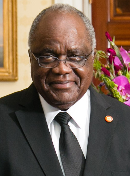 President Barack Obama and First Lady Michelle Obama greet His Excellency Hifikepunye Pohamba, President of the Republic of Namibia and Ms. Penehupifo Pohamba, in the Blue Room during a U.S.-Africa Leaders Summit dinner at the White House, Aug. 5, 2014. [Official White House Photo by Amanda Lucidon] This official White House photograph is in the public domain from a copyright perspective, so while restrictions such as personality or privacy rights may apply, in general, manipulations are allowed.